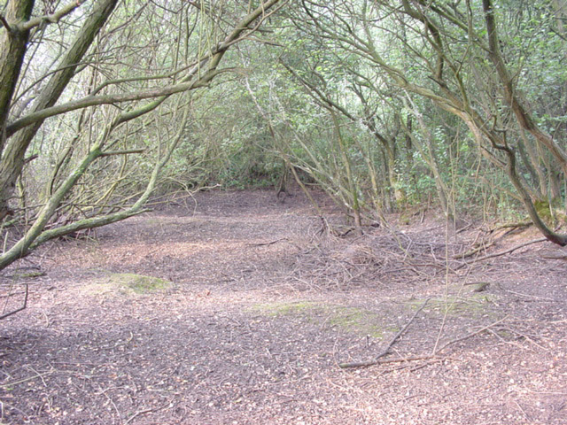 Location: Western Part of the “Plateau d’Helfaut”, in the current Nature Reserve Landes of Helfaut (one of the old "voluntary" nature reserves, "since become regional nature reserves") in the Region Nord/Pas-de-Calais and one of four of these reserves established in compensatory measuring against the ecological fragmentation effect of the new big road cutting the plateau Helfaut (Natura 2000, Arrêté prefectoral de Biotope).